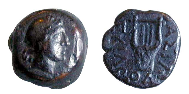 Olbia. Trigemichalk. 120-110 BC. Head of Apollo right, cithara